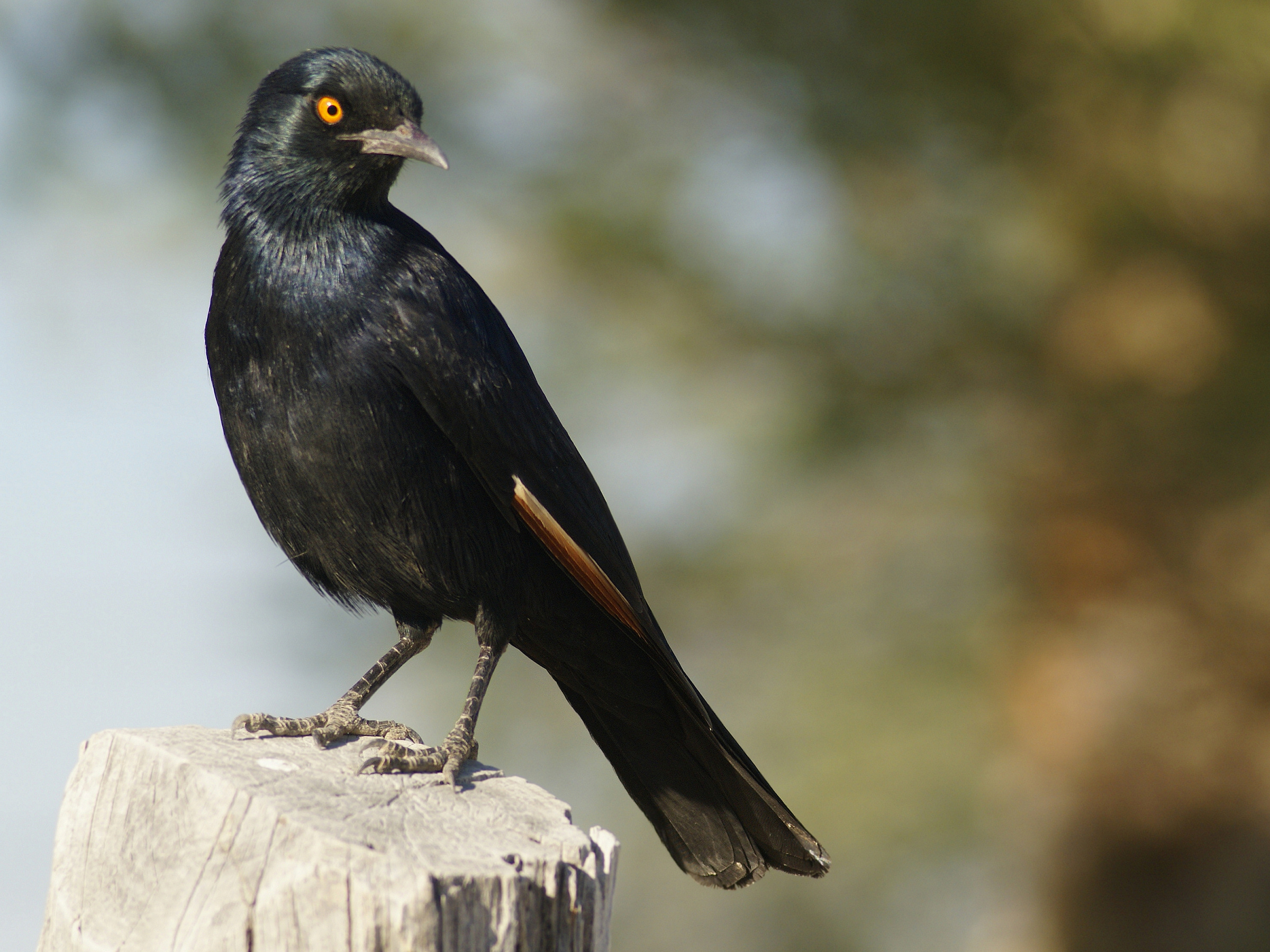 A Pale-winged Starling at Sesfontein, Kunene Region, Namibia